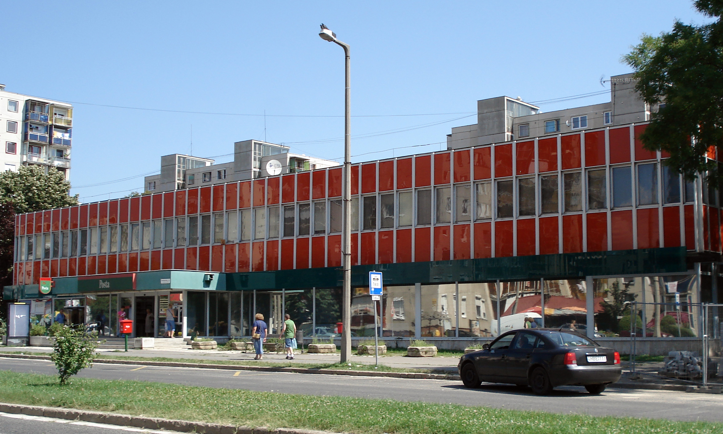 Post office in the Avas housing estate, Miskolc, Hungary